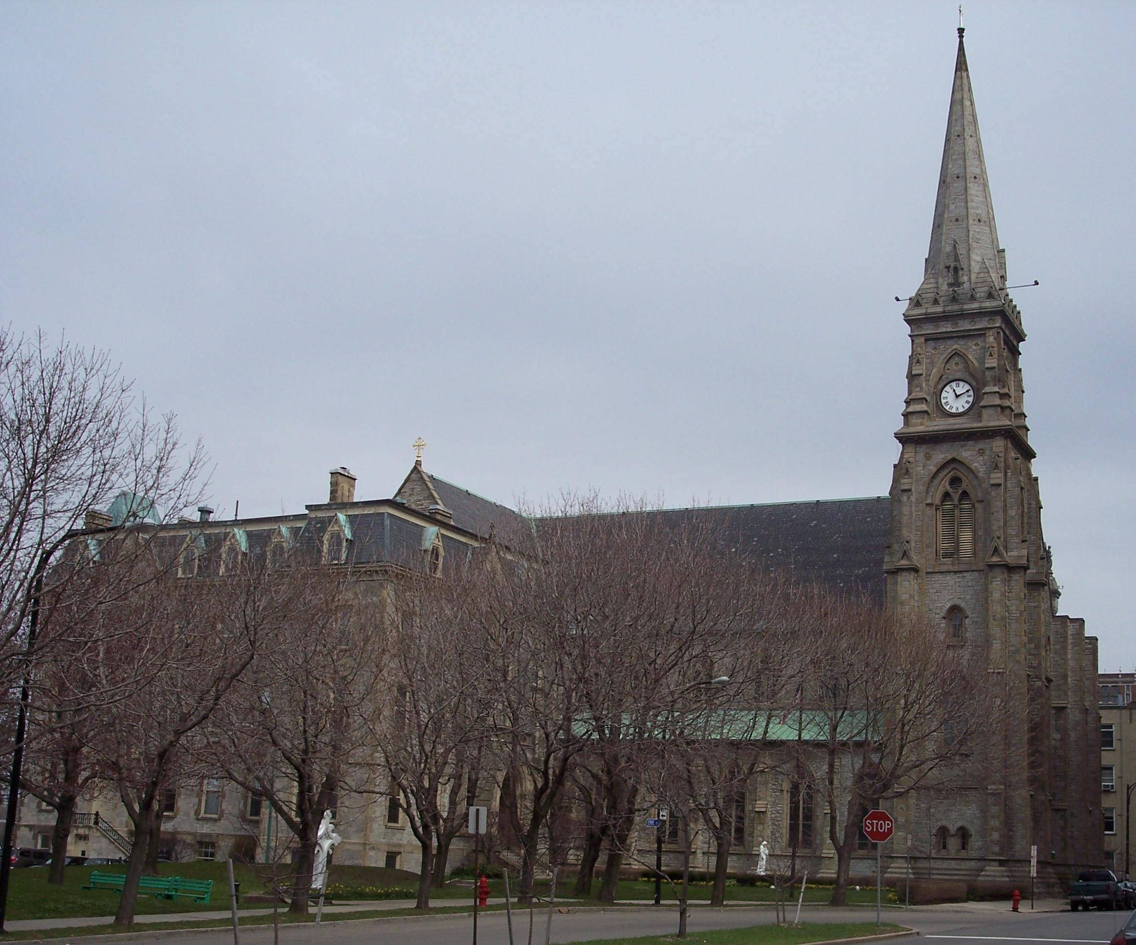 Saint Joseph Cathedral, 50 Franklin Street, Buffalo, New York